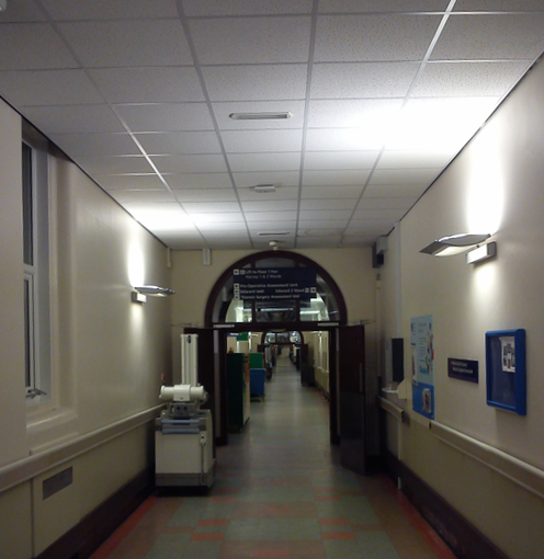 North Corridor in Nottingham City Hospital (showing mobile X-ray machine)